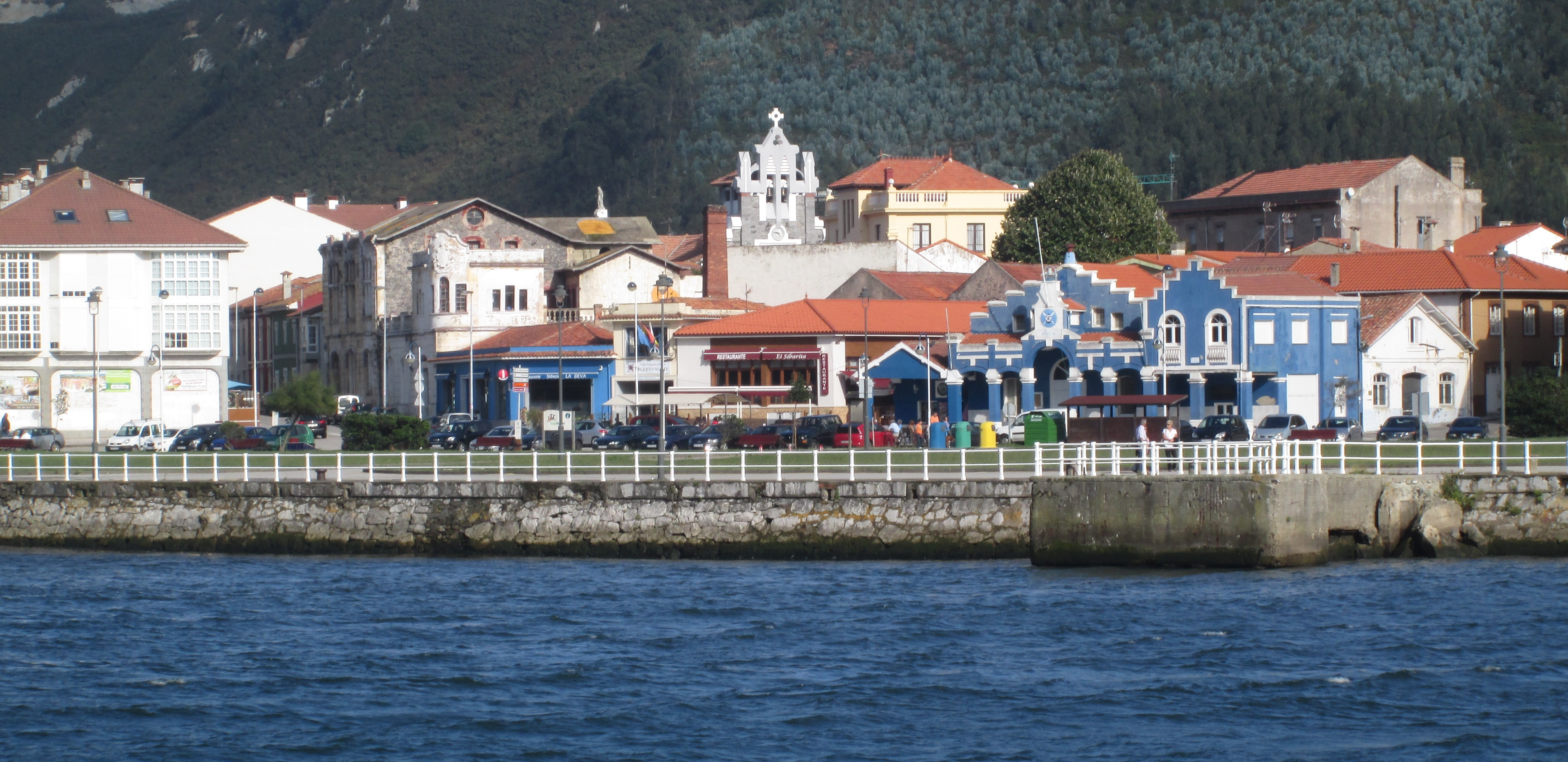 View of San Juan de la Arena (Asturias) from San Esteban de Pravia, at the other side of the Nalón river.